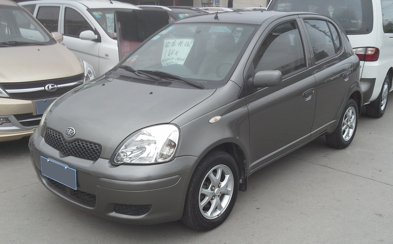 FAW Tianjin Vizi photographed in Chengdu, Sichuan province, China.